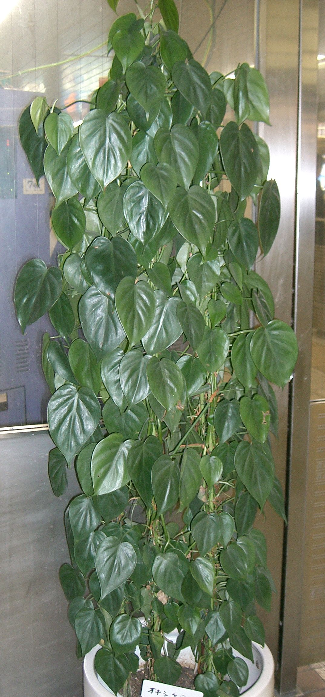 Philodendron hederaceum var. oxycardium